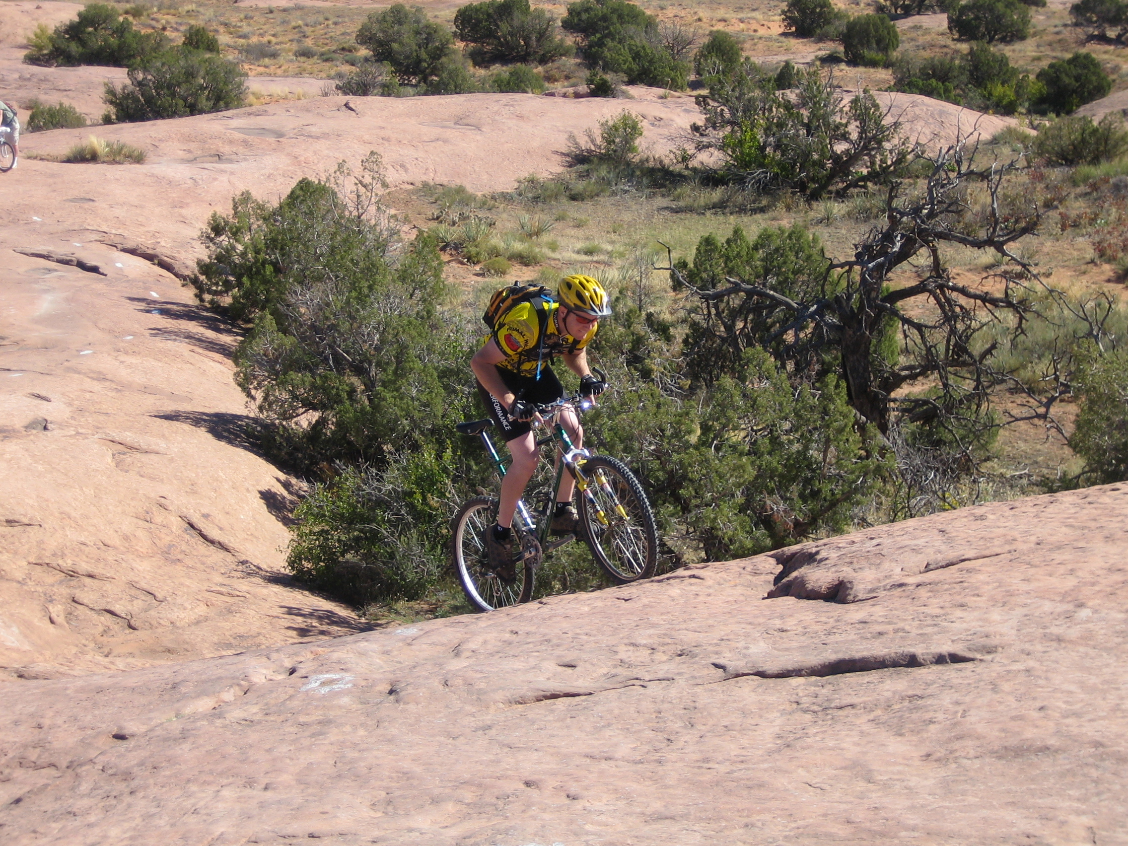 One of several steep hills on the Slickrock Trail. Self made photo